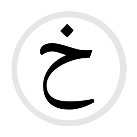 HS Letter (arabic alphabet)